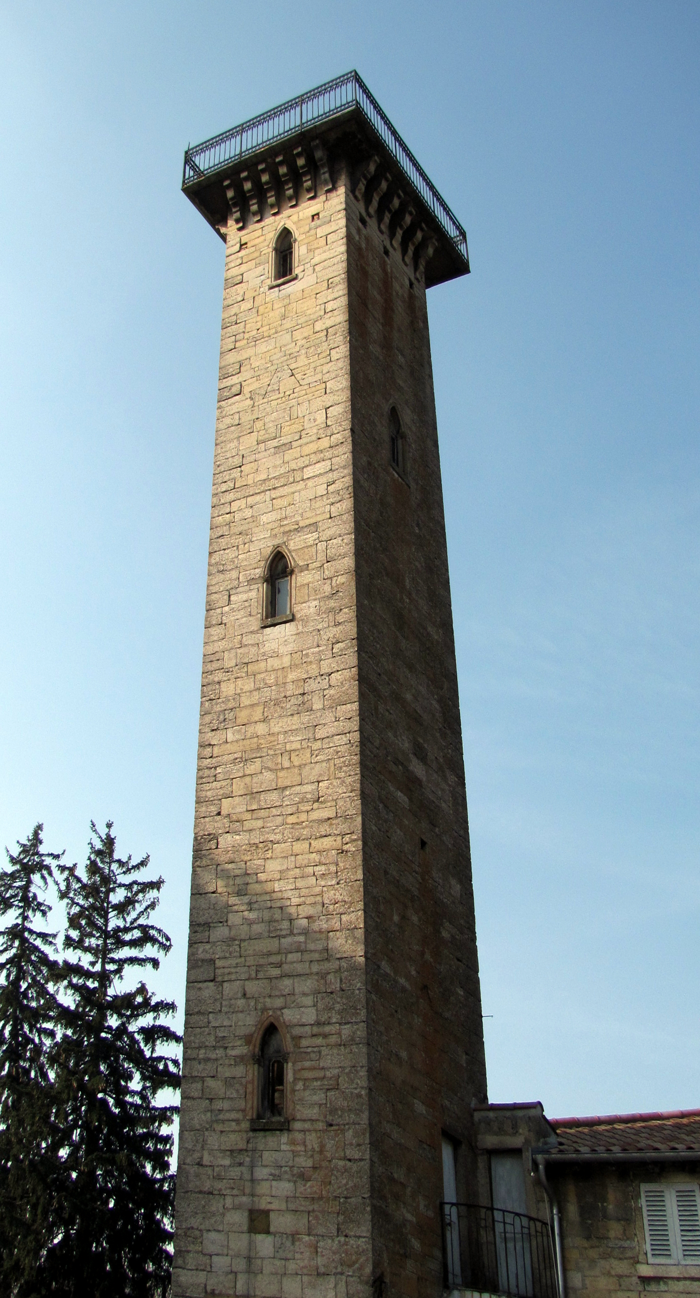 Sermenaz tower at Neyron.